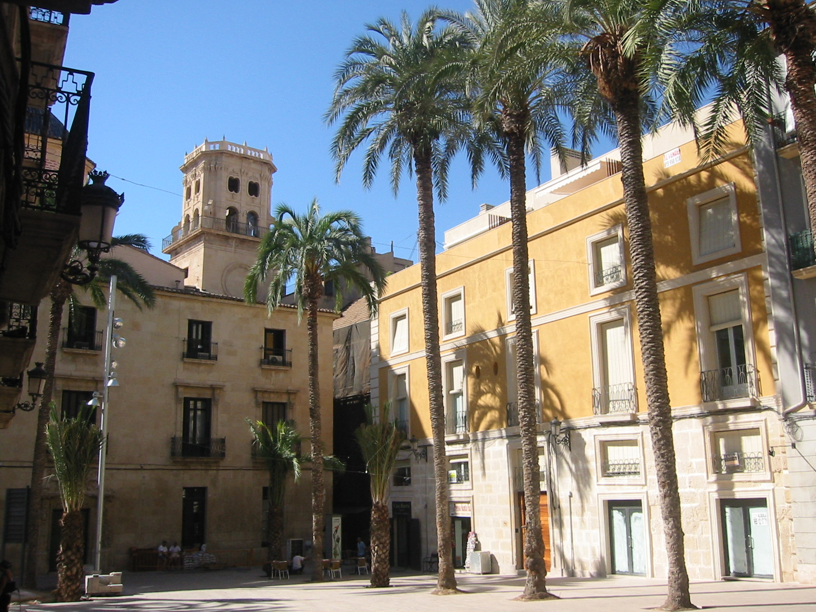 Street in Alicante